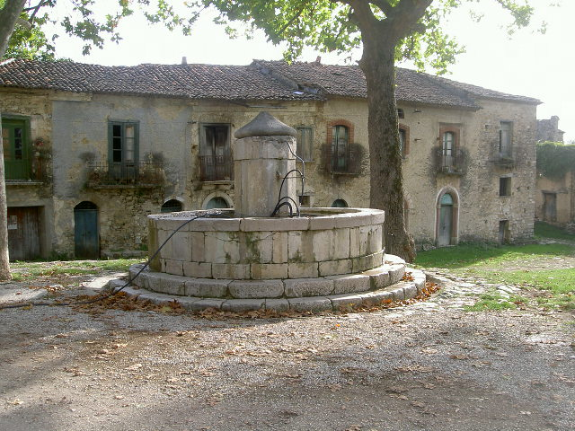 The fountain for village water supply — at the central square of the ghost town of Roscigno Vecchia